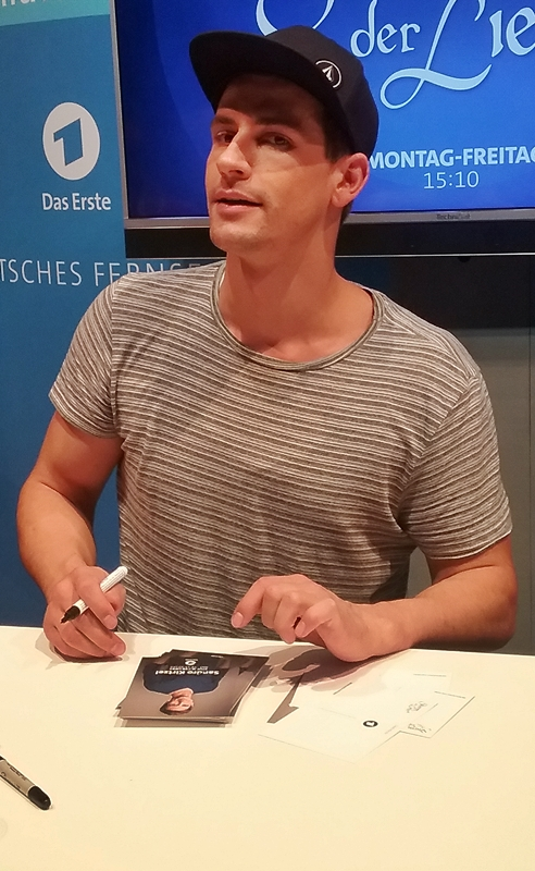 Sandro Kirtzel signs autographs at IFA 2018